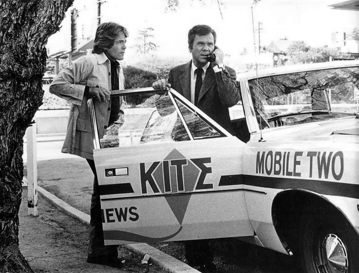 Photo of Jackie Cooper and Mark Wheeler from the short-lived television program Mobile One.